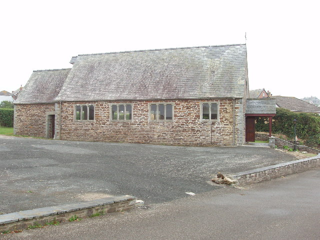 St Saviour's Church, Trevone. This church was built in 1959. The walls are local sandstone, from St Columb Downs. It is iron rich and the iron works outwards as the stone is weathered to give a hard casing. The roof is Delabole slate. It replaced a wooden mission church built in 1894. It is dedicated to St Saviour because there was a St Saviour's Chapel on what is now St Saviour's Point, on the Camel Estuary outside Padstow but inside the Doom Bar.